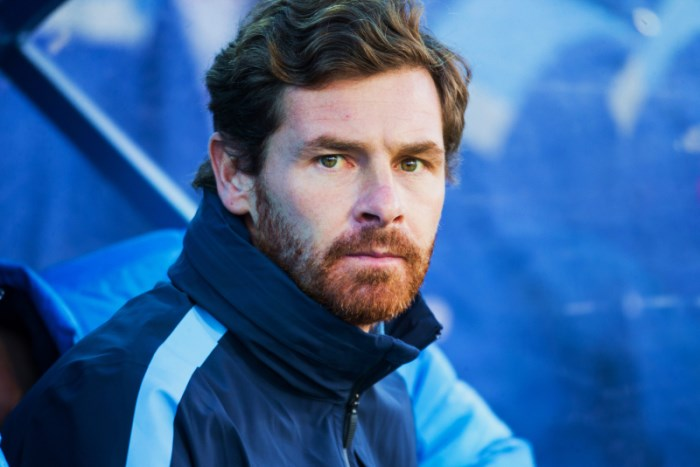 André Villas-Boas